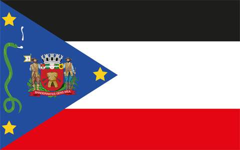 Flag of city of Mogi das Cruzes, São Paulo, Brazil